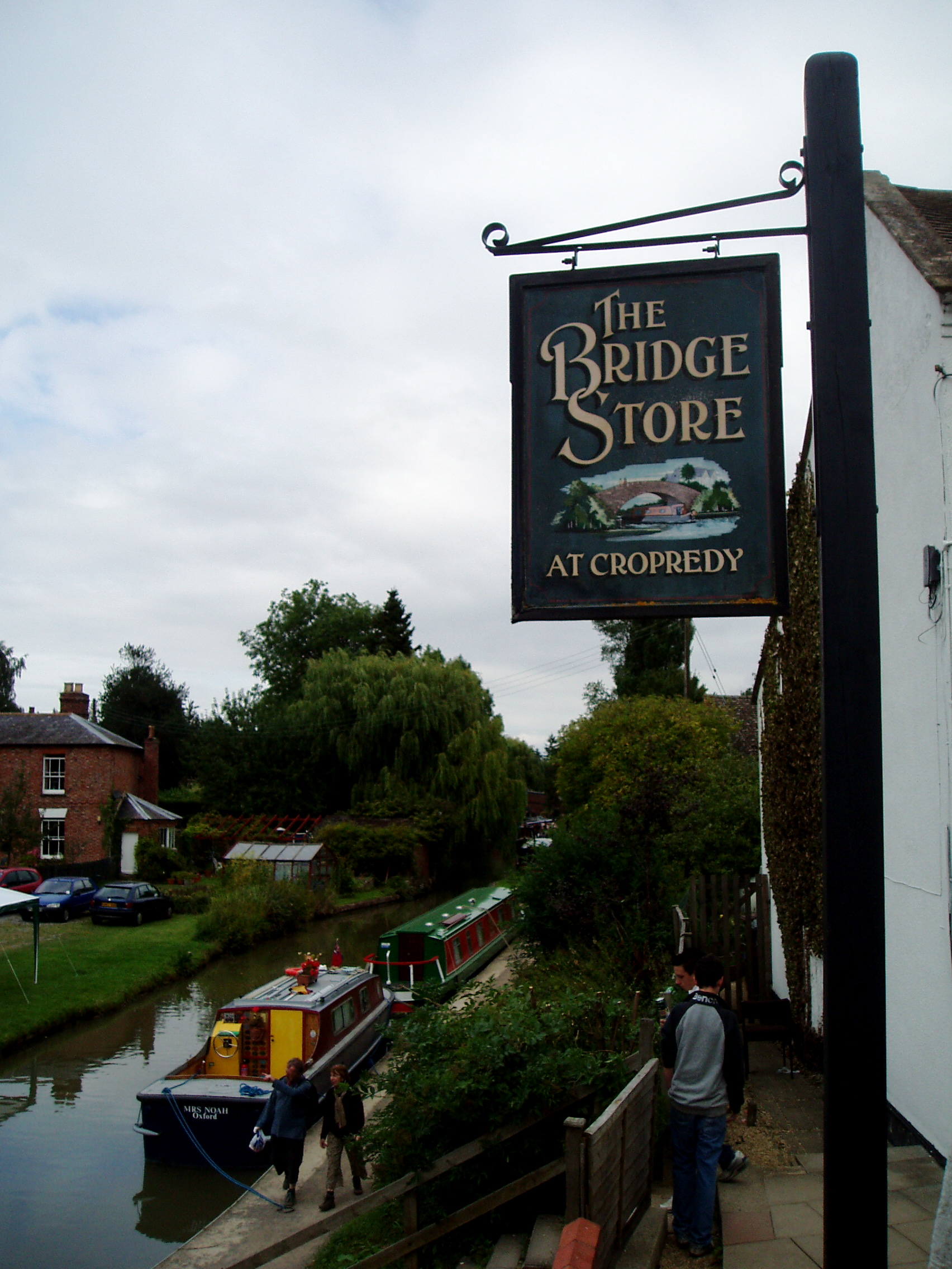 Cropredy village, showing the store and the canal. Oxfordshire, UK. Image: J. Skinner, 2005.